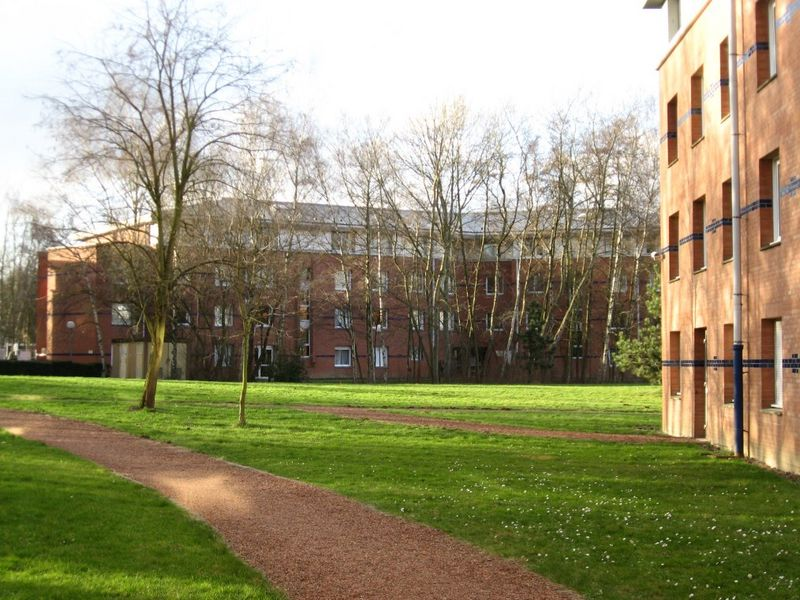 Student residence in the campus of École centrale de Lille